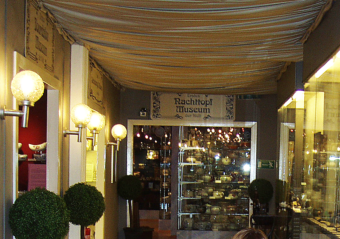 Chamber pot museum in the background, Zentrum für aussergewöhnliche Museen (closed down in 2005) in Munich, Germany